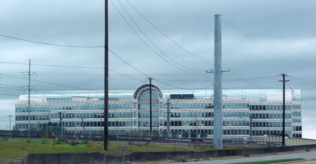 Infomart, Dallas, Texas